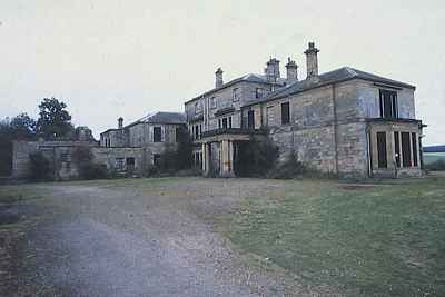 Hammerwood derelict, Hammerwood Park, View from the north, whilst derelict in 1982